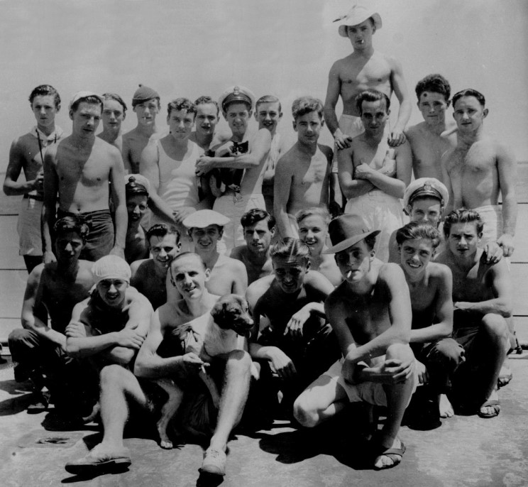 Crewmen of HMS Amethyst F-116 seen while trapped on Rose Island during the Yangtze Incident. Back row from left to right: Townsend, Augustyn, Parish, Hutchinson, Jones, Wright, White (holding Able Seacat Simon), Bryson, Chare, MacNamara, A. Williams, Murphy and Keicher. 2nd row from left to right: Bannister, McCarthy, Nolan, Saunders, P. Jones, Delve, Munson, Williams and Wilson. Front row from left to right: McClean (?), Griffiths, Wells, McCullough and Guardsman Peggy (the ship's dog). Peggy and Simon were both awarded the Distinguished Amethyst Campaign Ribbon.